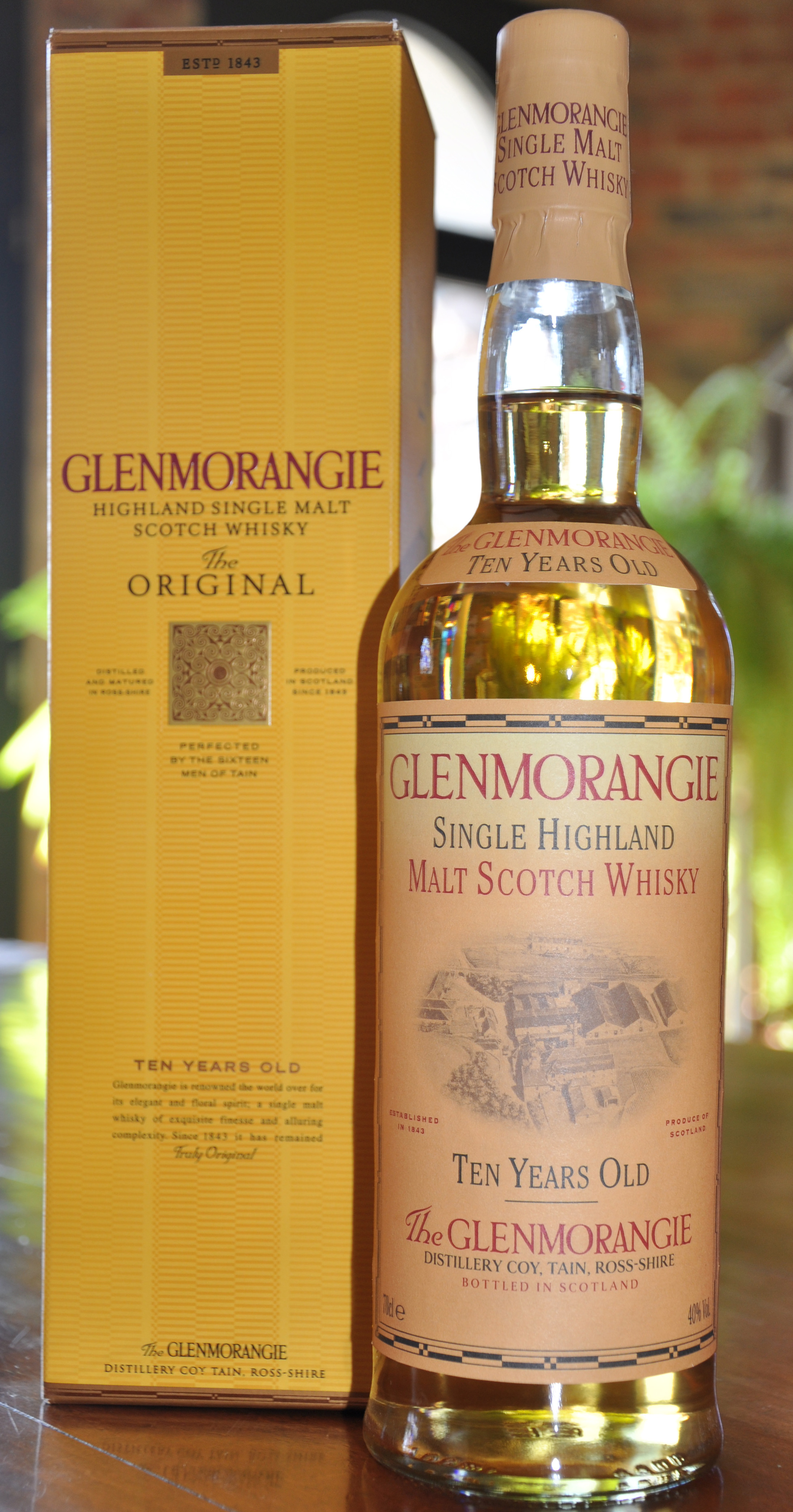 Glenmorangie Single Malt Whisky Bottle and Box